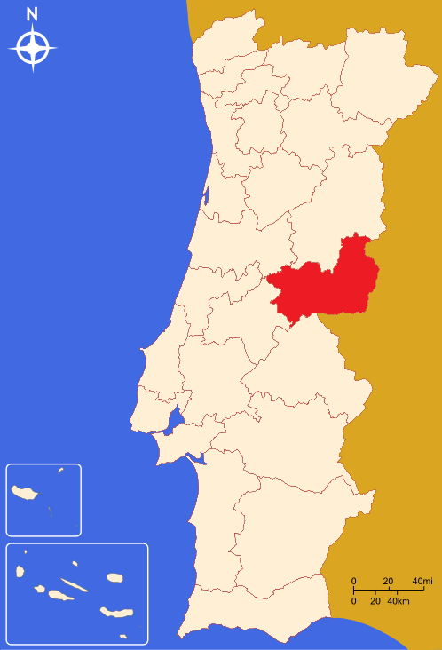 Comunidade Intermunicipal da Beira Baixa